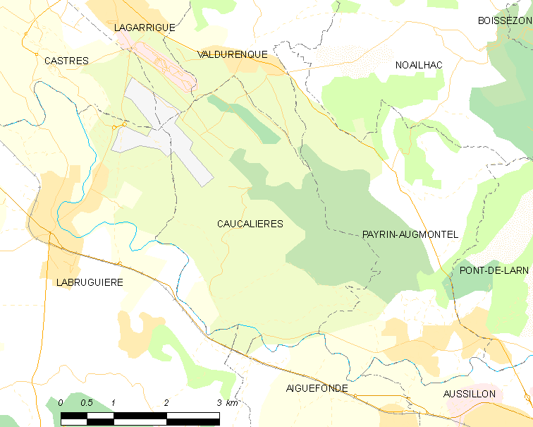 Map commune FR insee code 81066.png - Caucalières